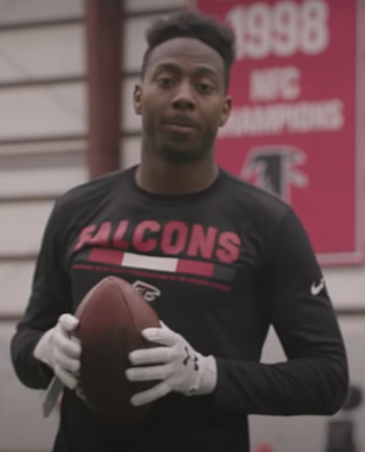 Russell Gage in 2018